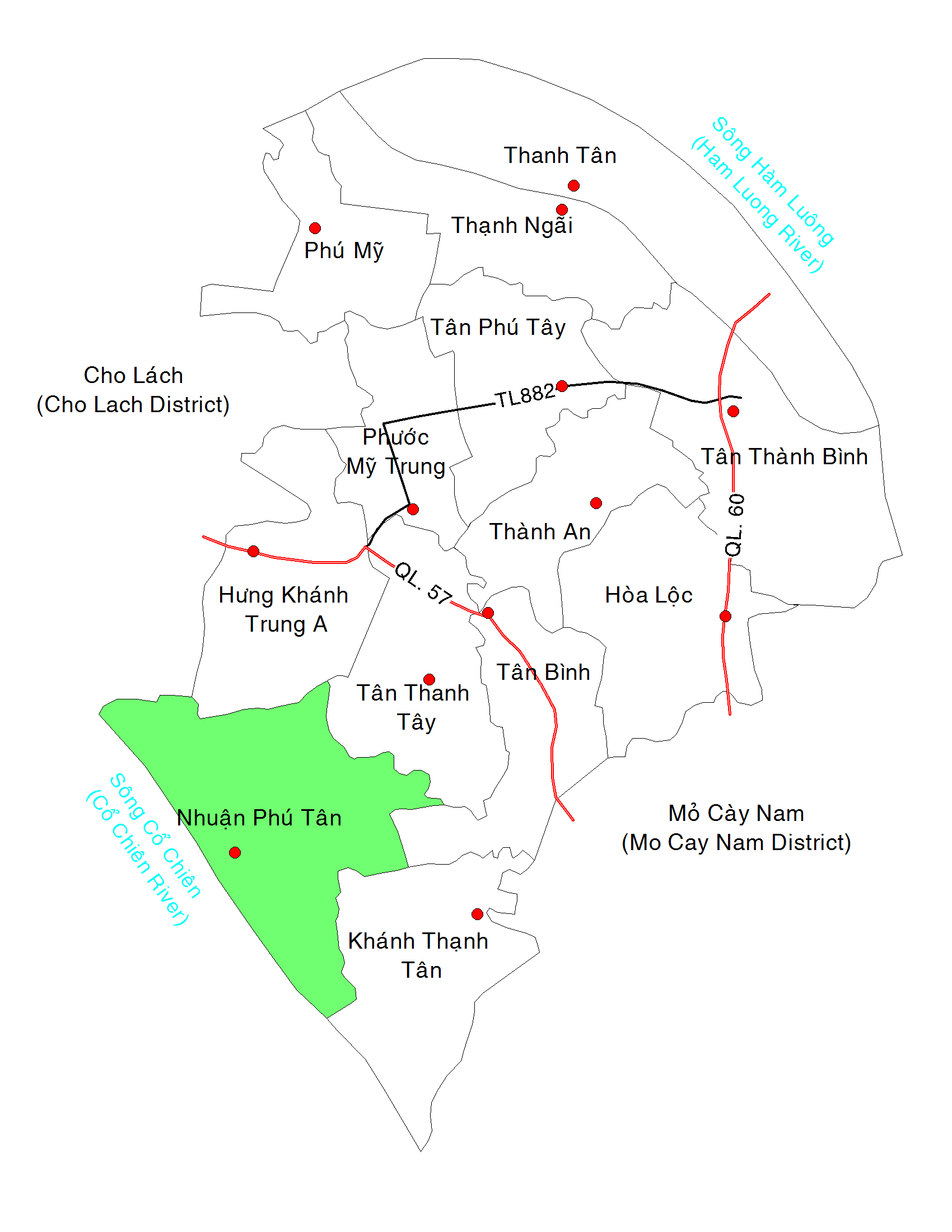 Locaiton map of Nhuận Phú Tân commune, Mo Cay Bac District, Ben Tre province, Vietnam